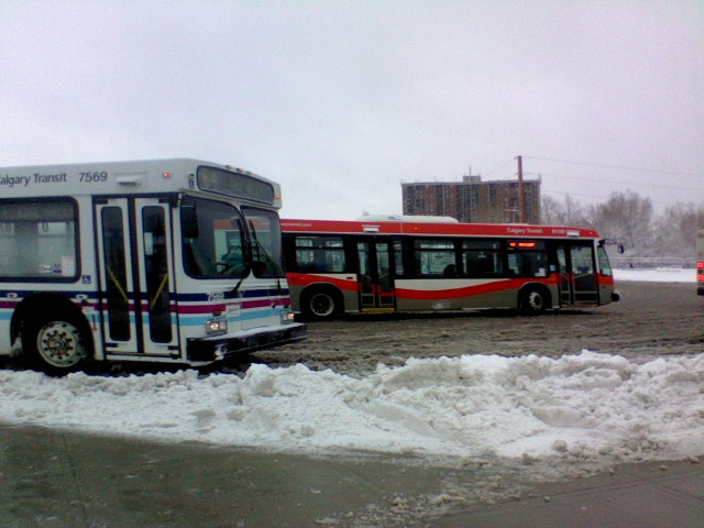 The bus loop for Dalhousie C-Train station in Calgary, Alberta.